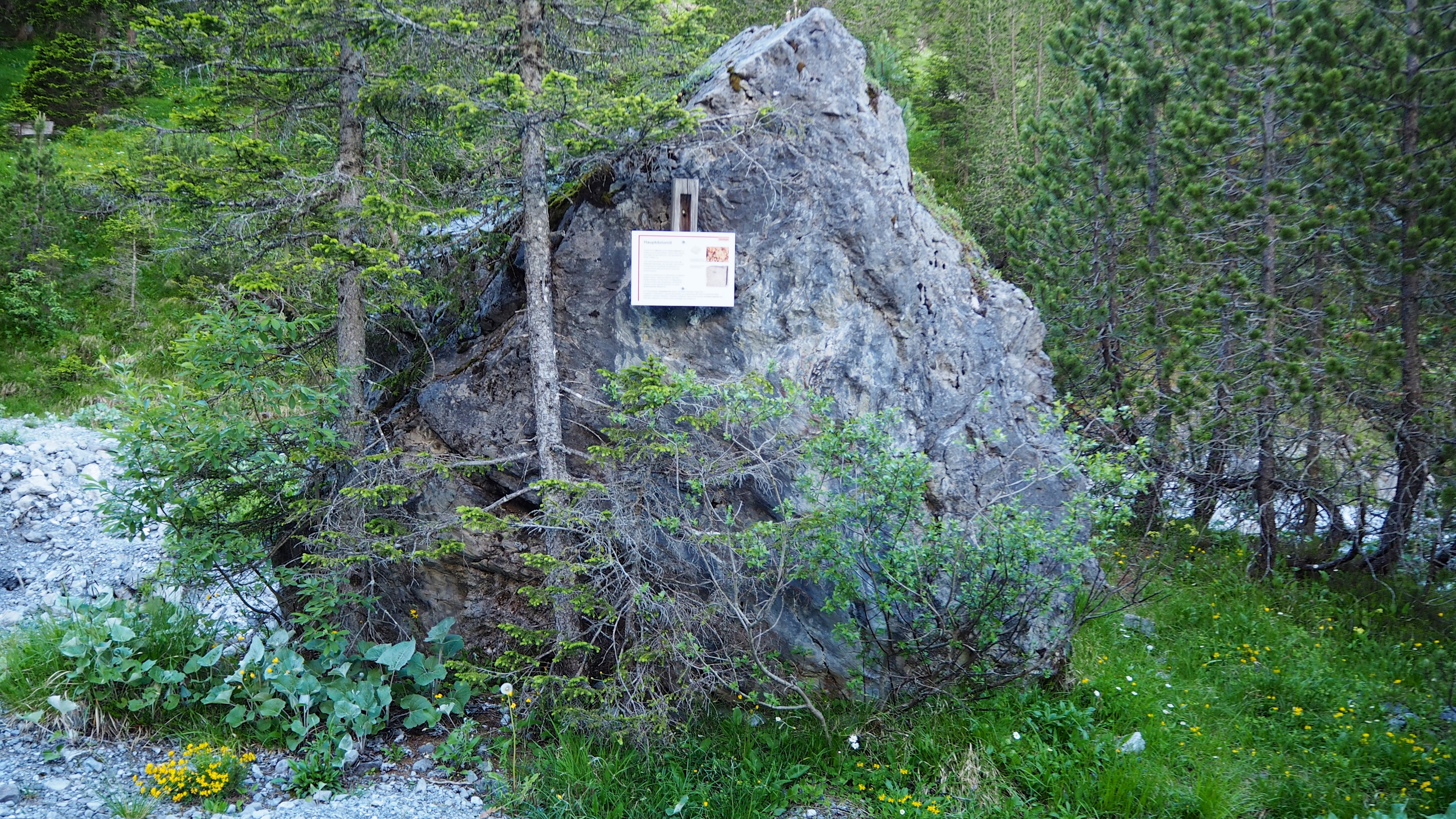 Rock made of main dolomite from Schiesshorn, Arosa/Switzerland.